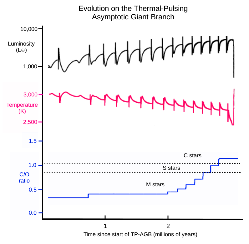 Diagrams showing the change in properties of a Template:Solar mass solar-metallicity star as it evolves along the Thermally Pulsing Asymptotic Giant Branch (following Weiss et al 2009).